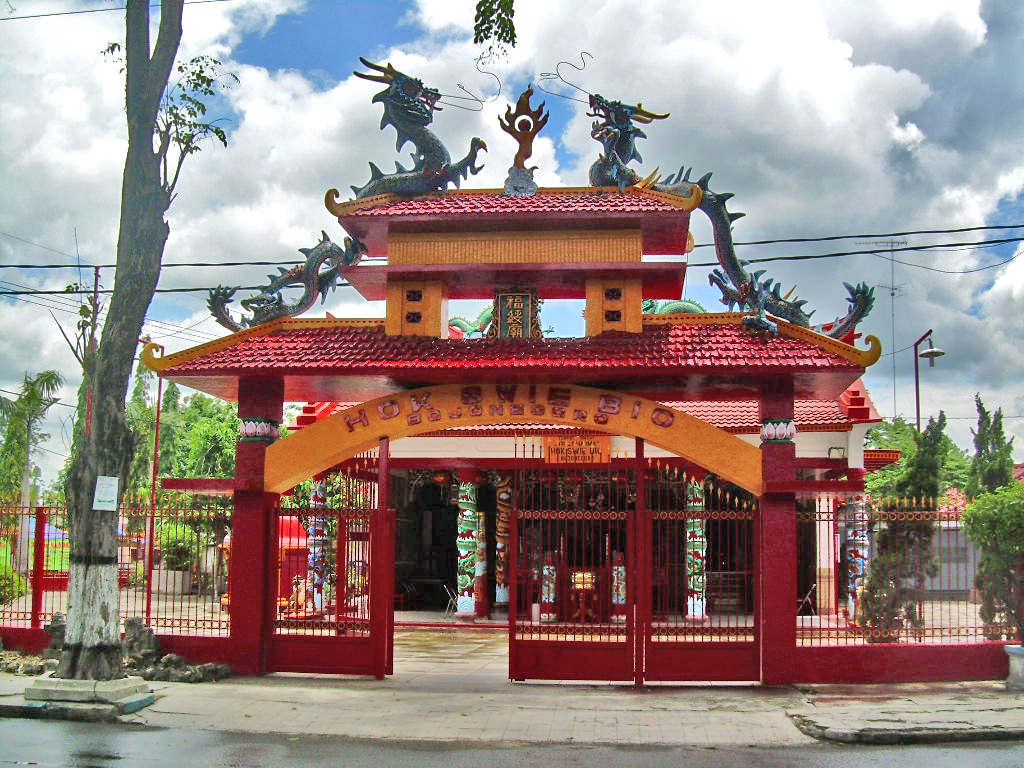 Hok Shwie Bio Confucian Temple in Bojonegoro, East Java, Indonesia. Taken by me. (Arifhidayat 13:33, 6 February 2007 (UTC))